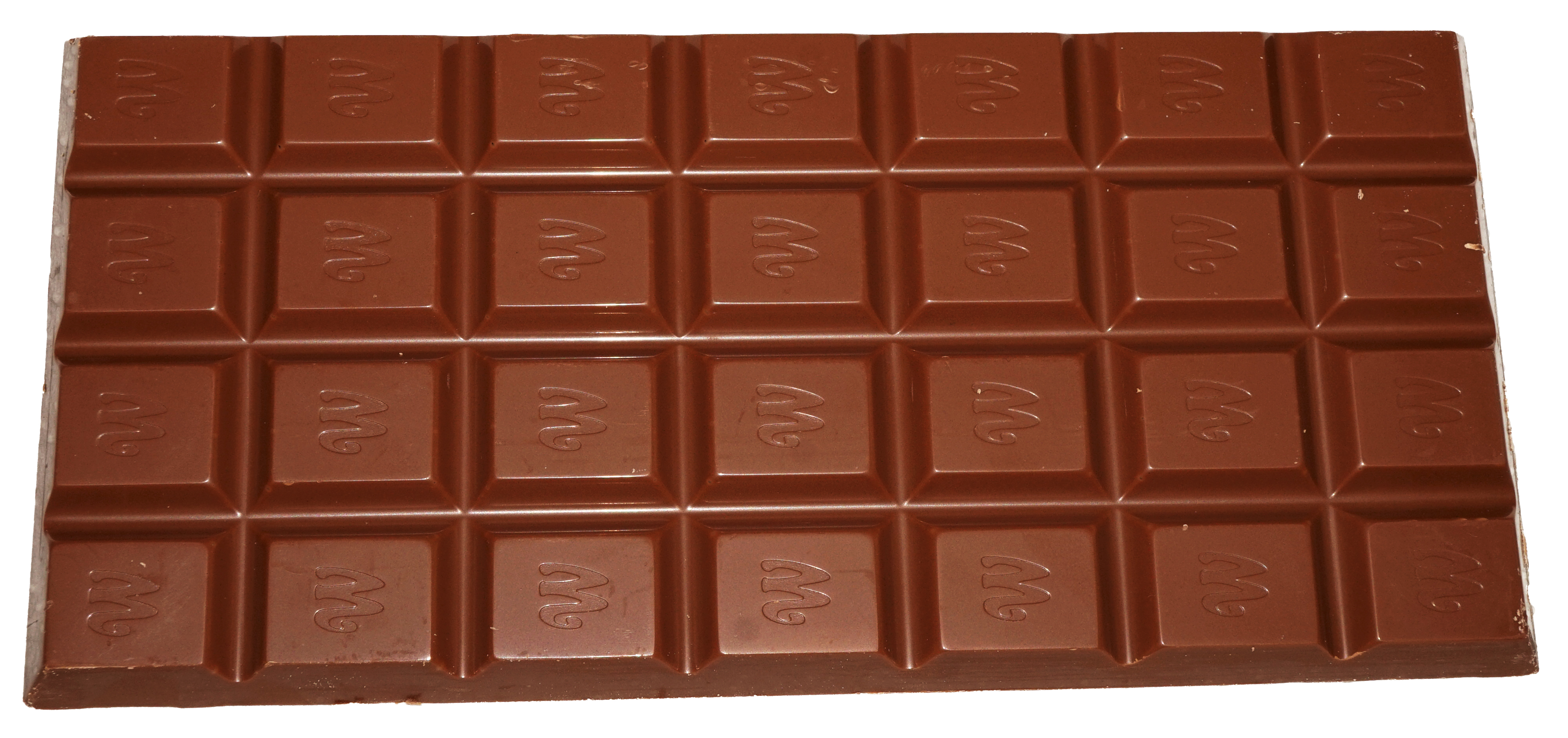 Marabou milk chocolate bar.This photograph was taken with a Sony ILCE-5000